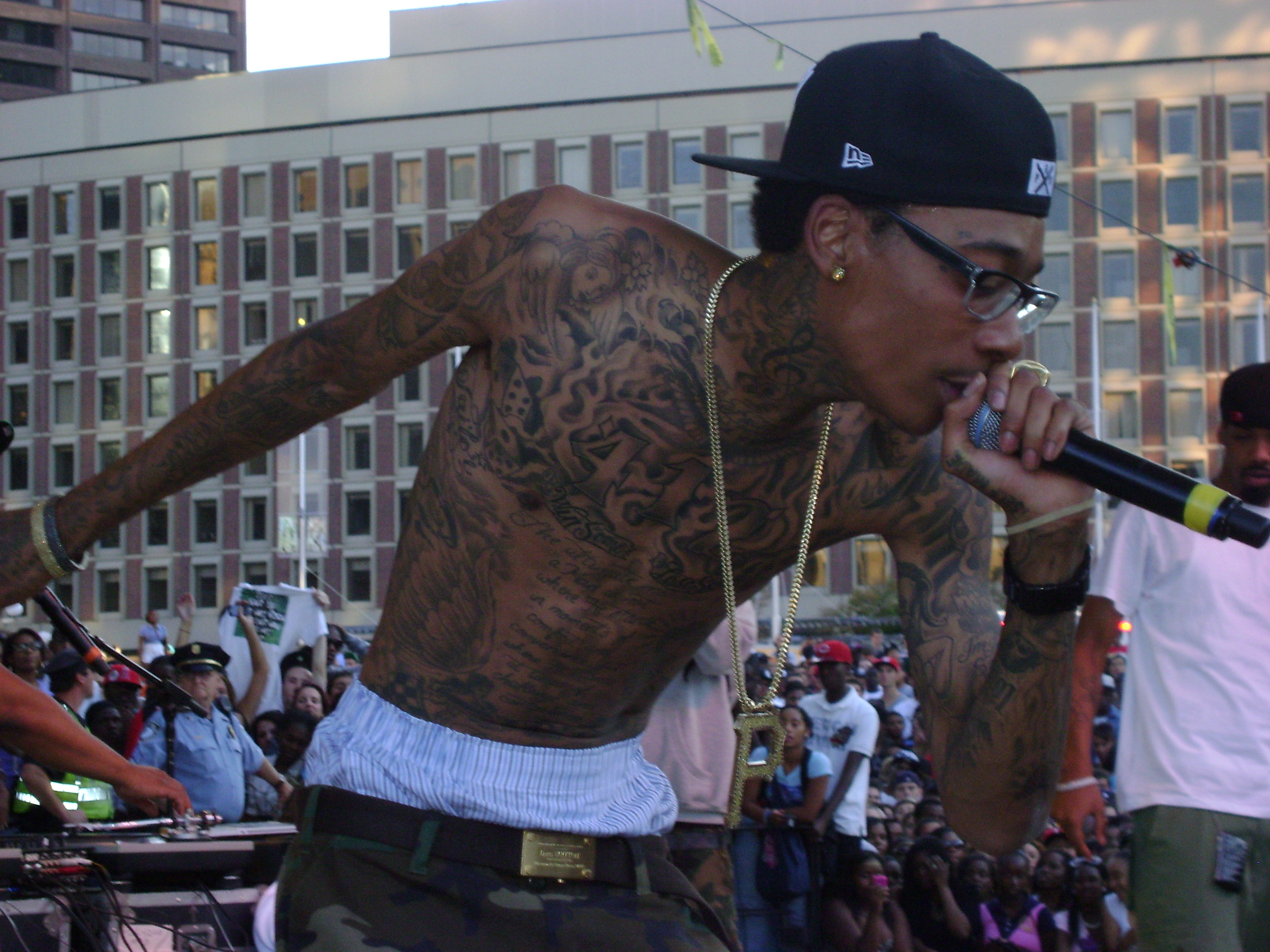 Rapper Wiz Khalifa performing at the Boston Urban Music Project (BUMP) at Boston City Hall Plaza in Boston, Massachusetts USA on Saturday, August 7, 2010.